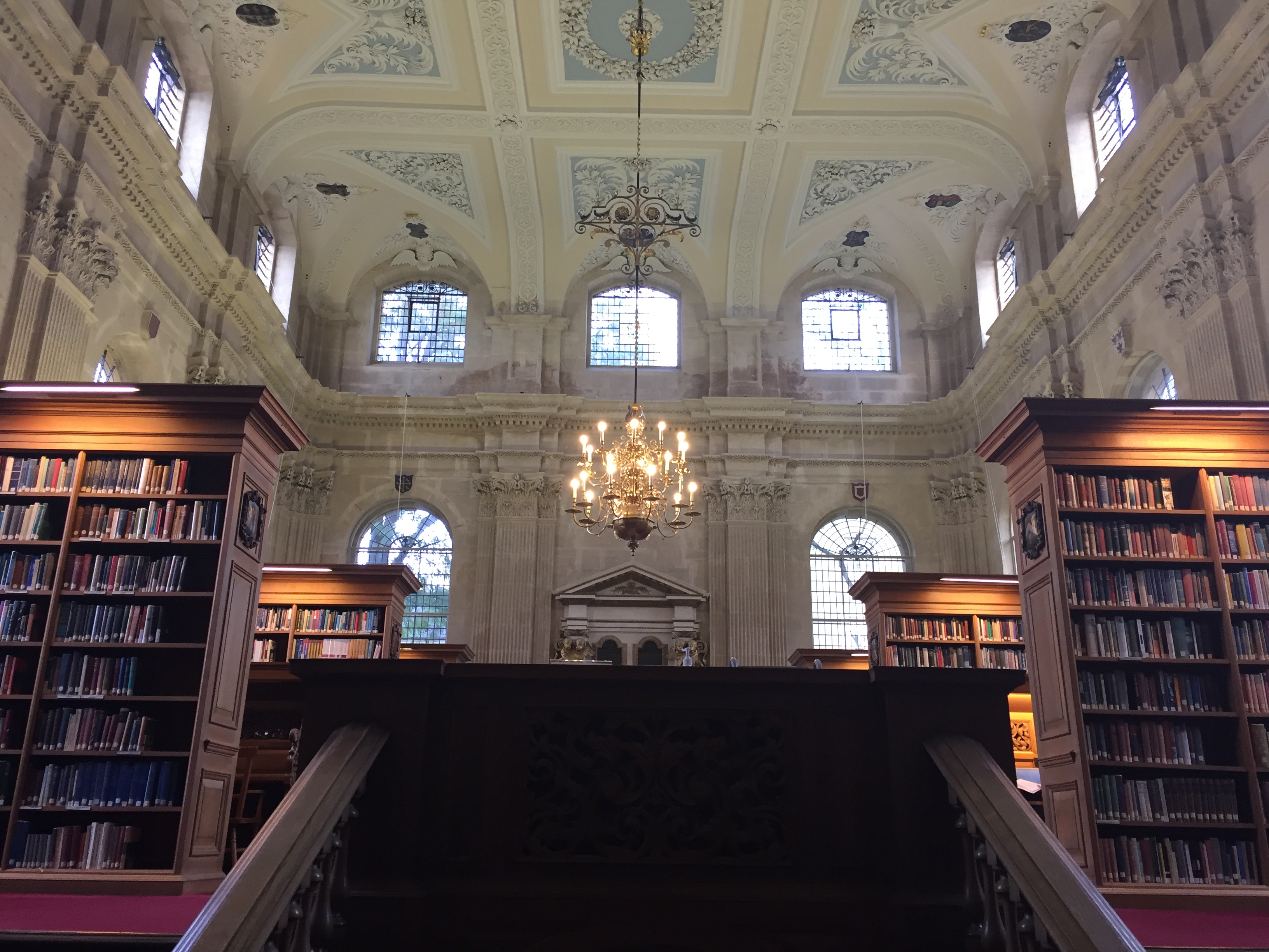 Formerly All Saints Church, the building now serves as the library of Lincoln College.